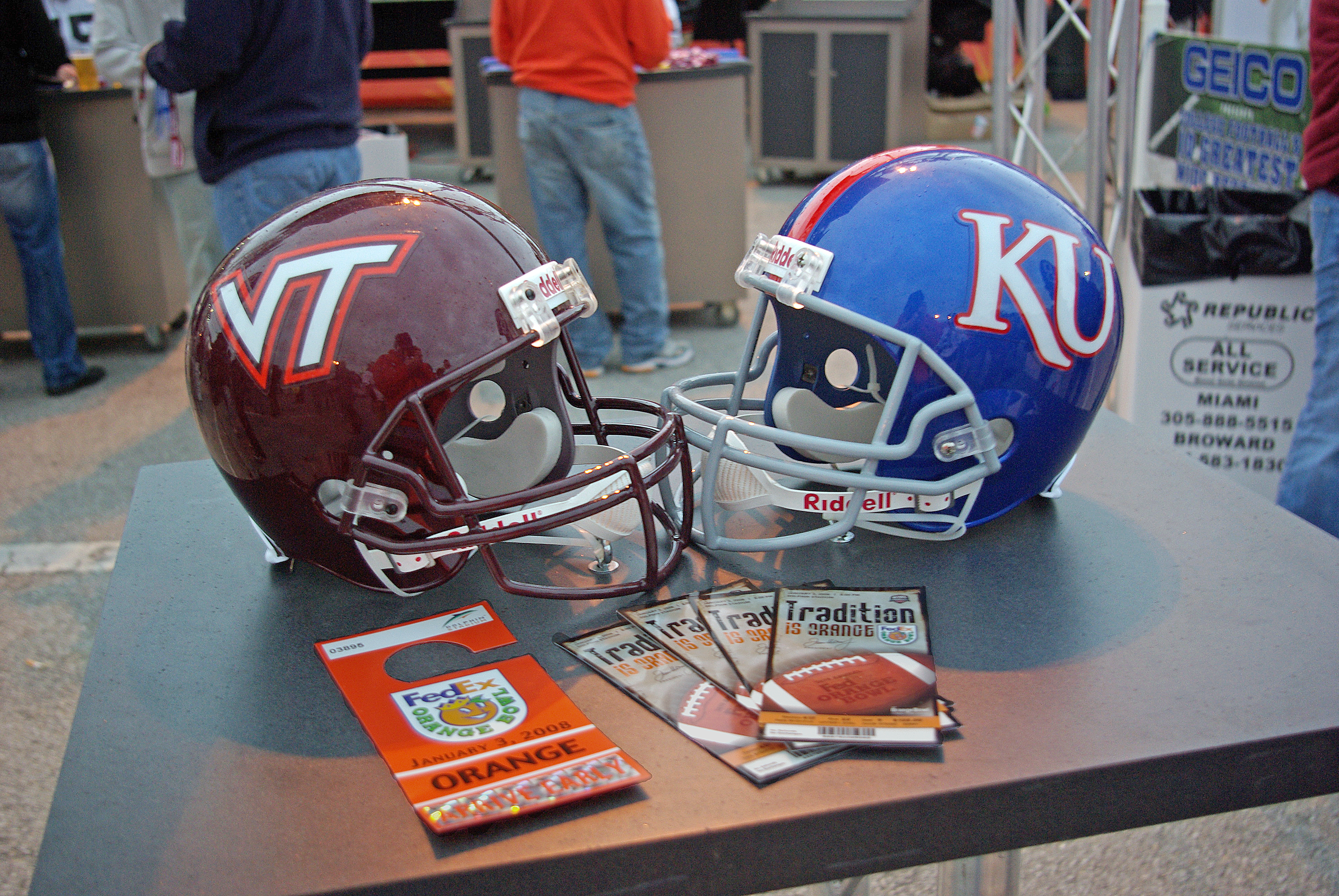 Virginia Tech and University of Kansas football helmets with 2008 Orange Bowl tickets and a parking pass in the foreground. Taken at the Fan Fest preceding the game.